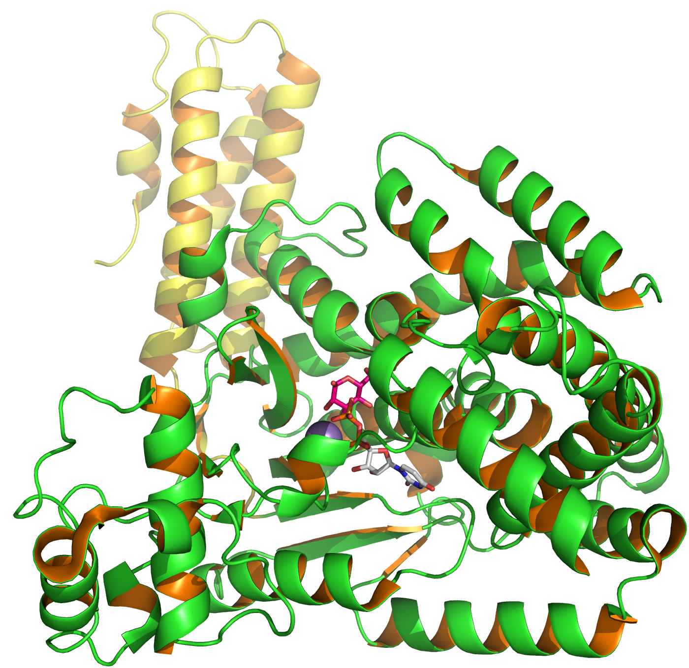 Clostridium difficile toxin B rendered from PDB 2BVM